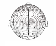 Topographic map of an event-related potential (ERP) component. The lines on the head connect points with the same voltage. It shows here a positive component (P3) that's frontal maximal.